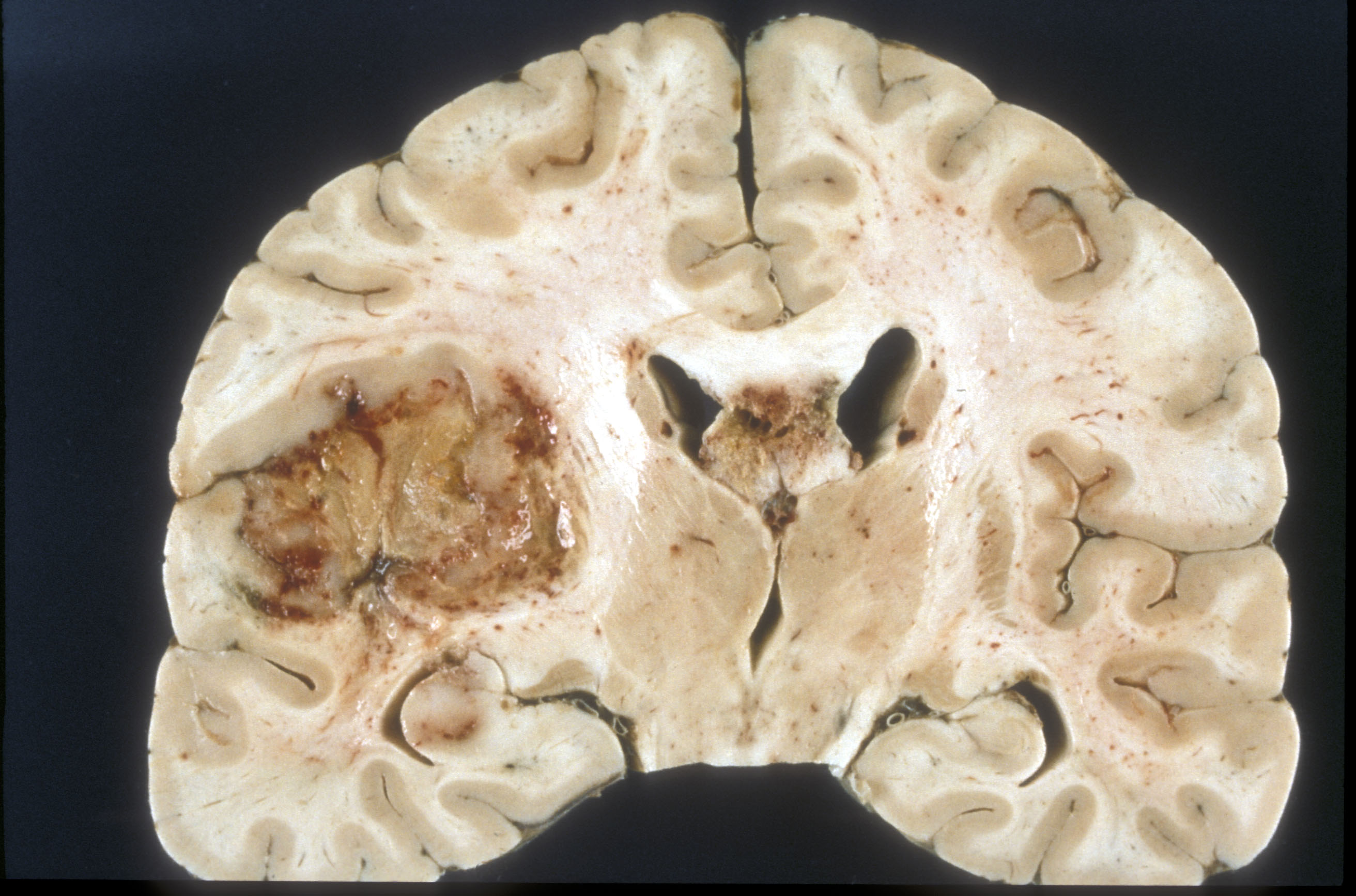 Macroscopic pathology of Glioblastoma multiforme